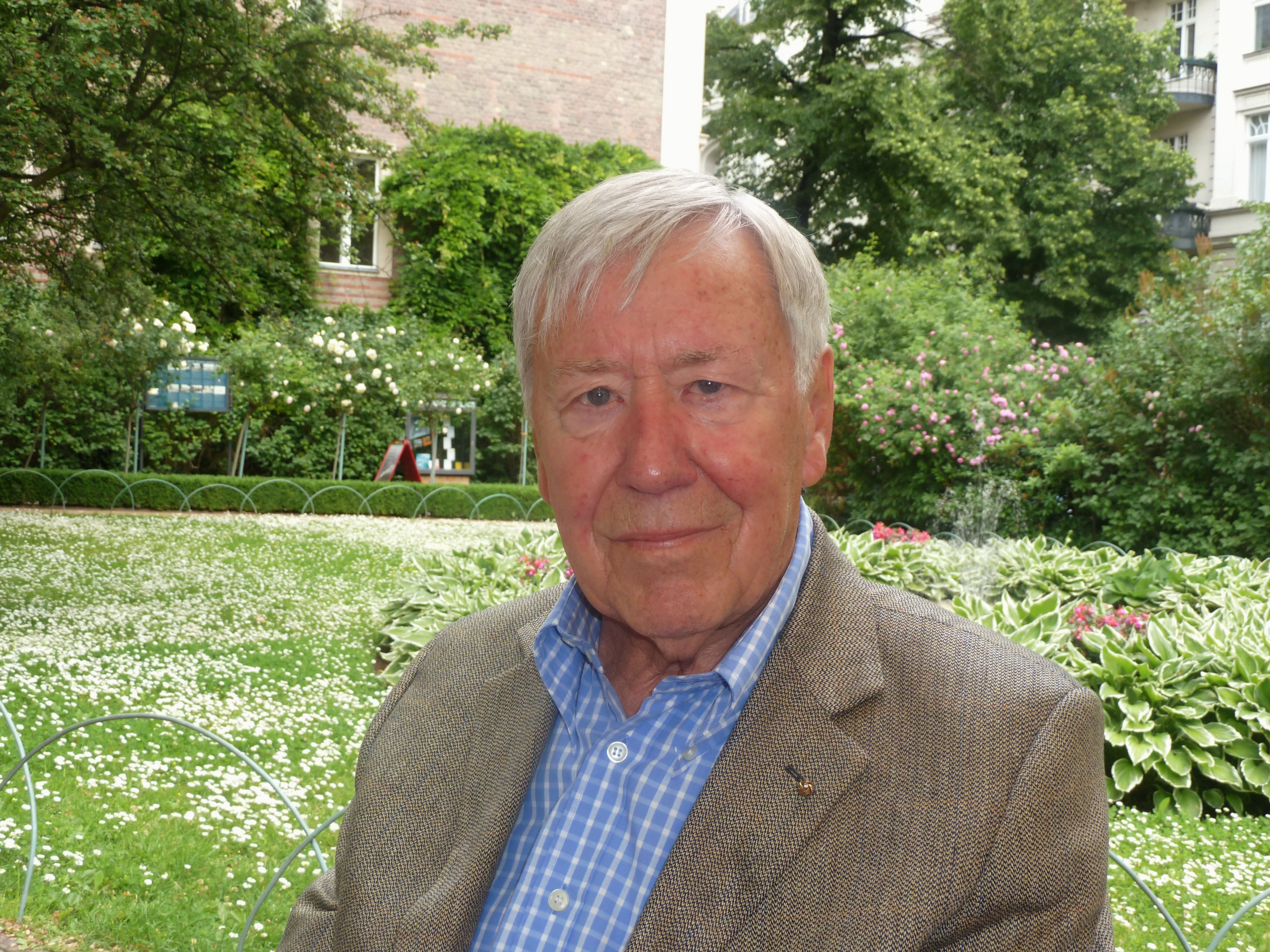 German actor and voice artist Jürgen Thormann in Berlin